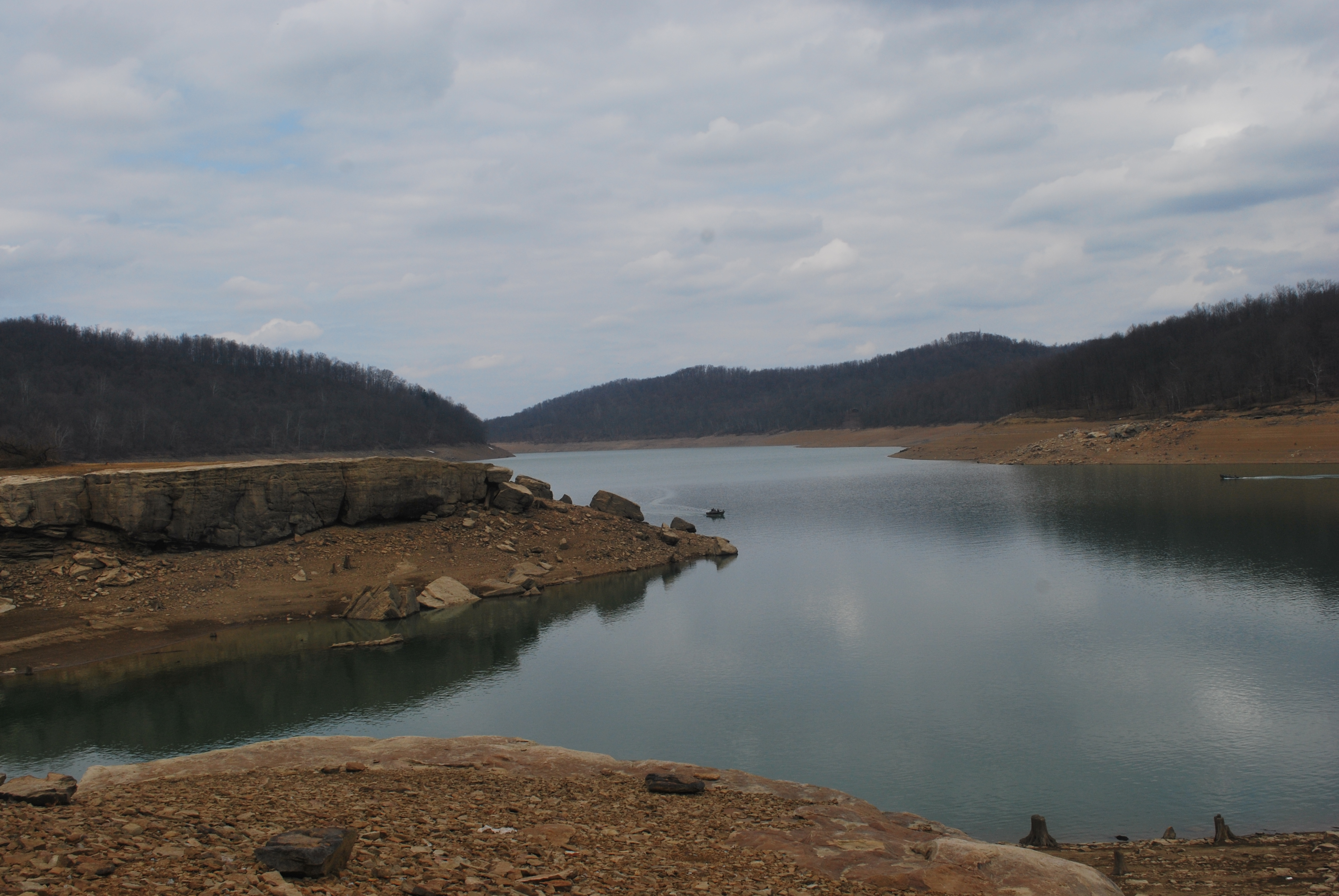 Tygart Lake in winter, taken from near Pleasant Creek Wildlife Management Area boat dock.